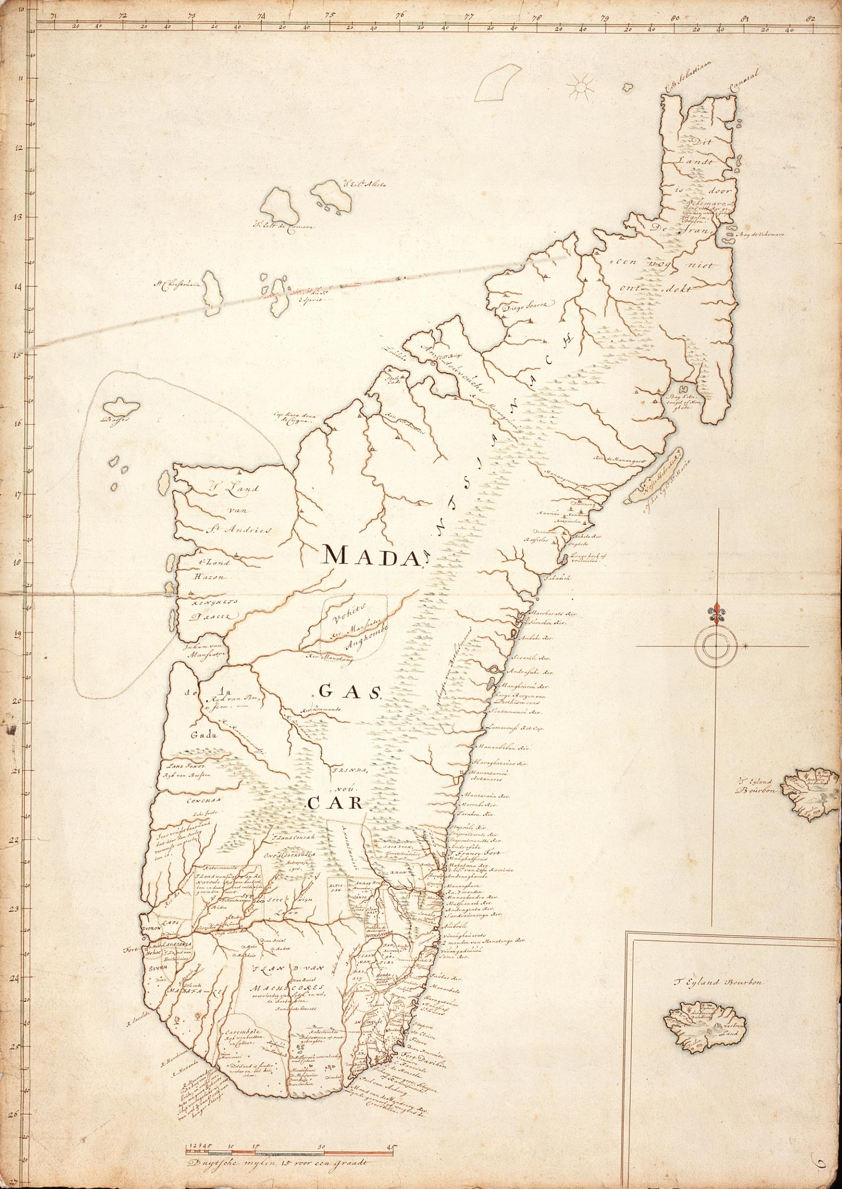 Title in the Leupe catalogue (National Archives): Kaart van het Eiland Madagascar en omliggende Eilandjes. Notes on the reverse: 6.B / 15 [in pencil].